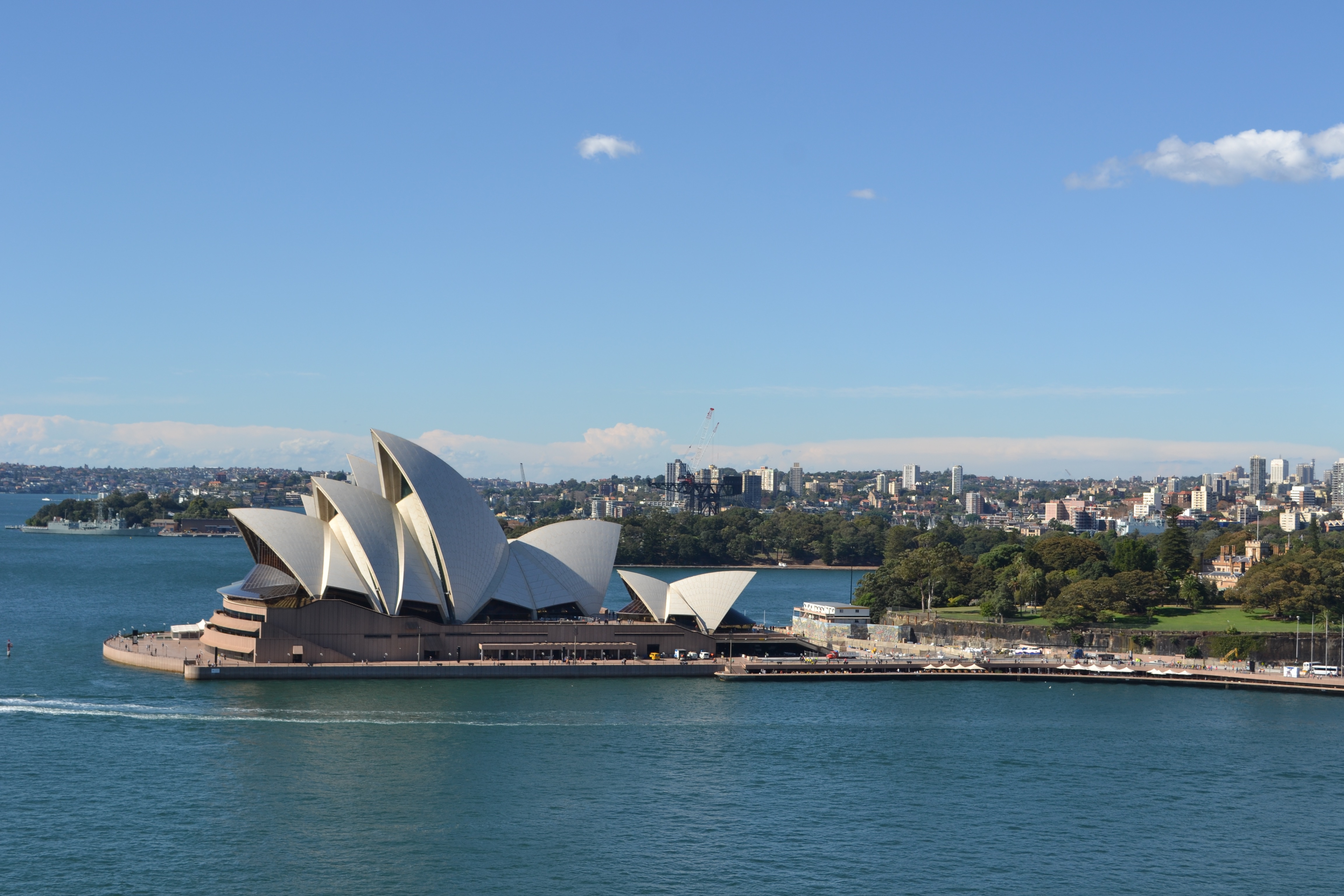 Sydney, Teatro dell'Opera, 2012